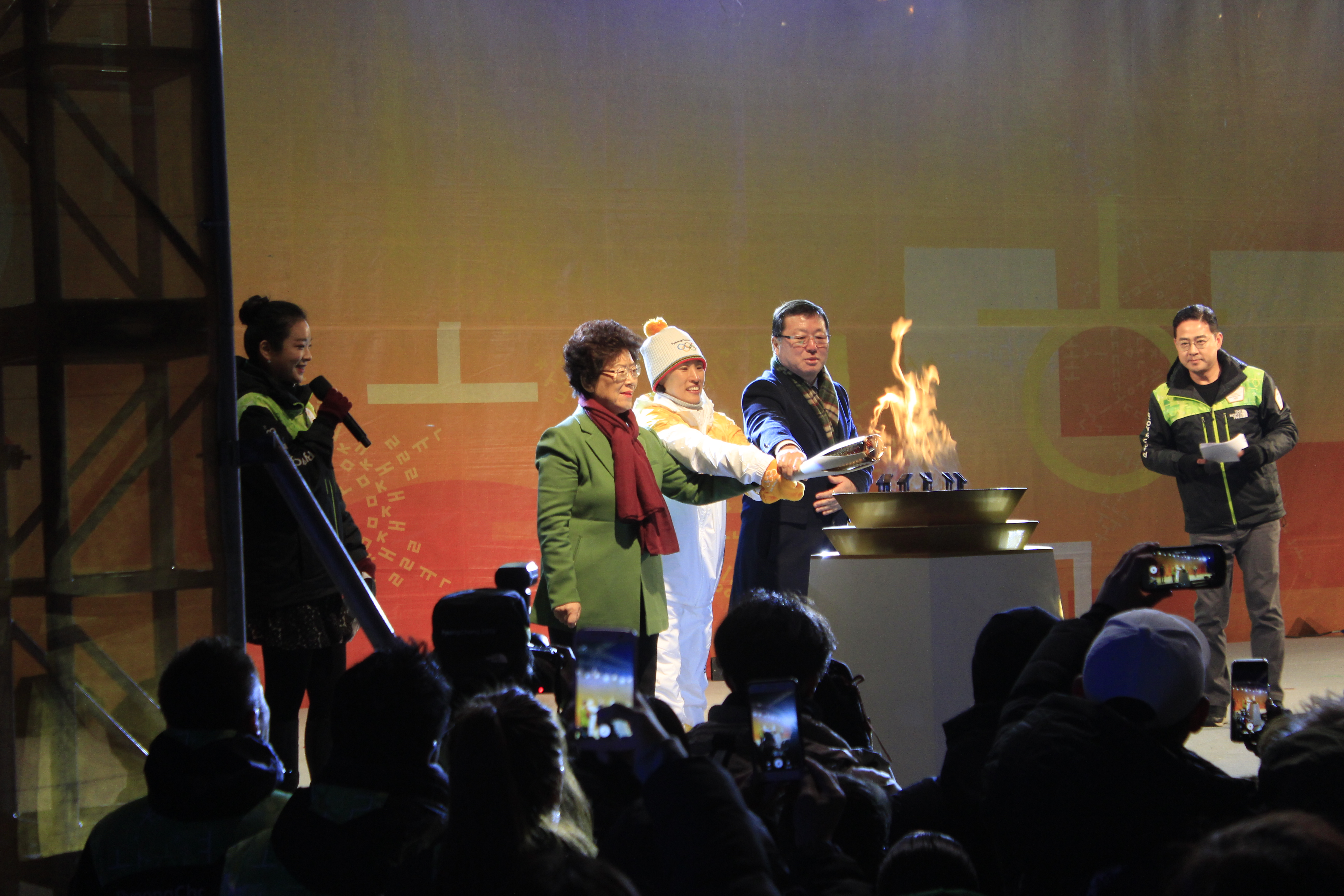 2018 Winter Olympics torch relay event in Imjingak